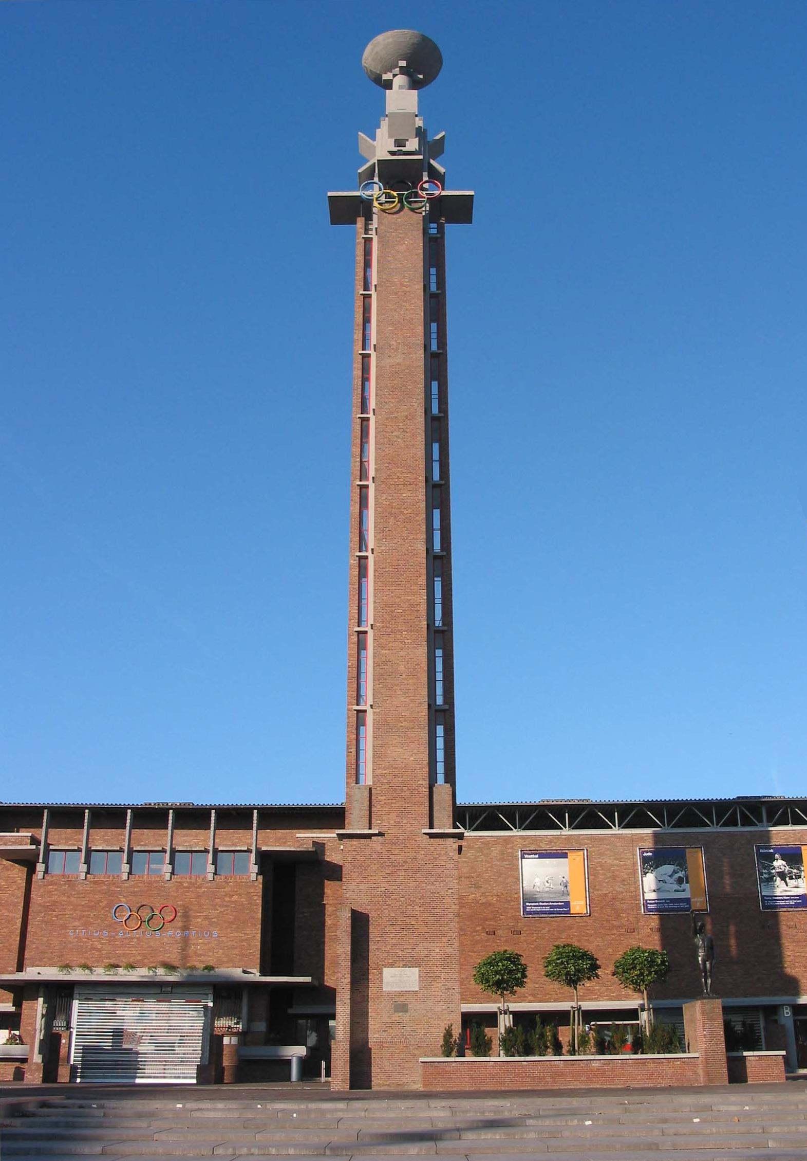 The Olympic cauldron in front of the Amsterdam Olympic Stadium.